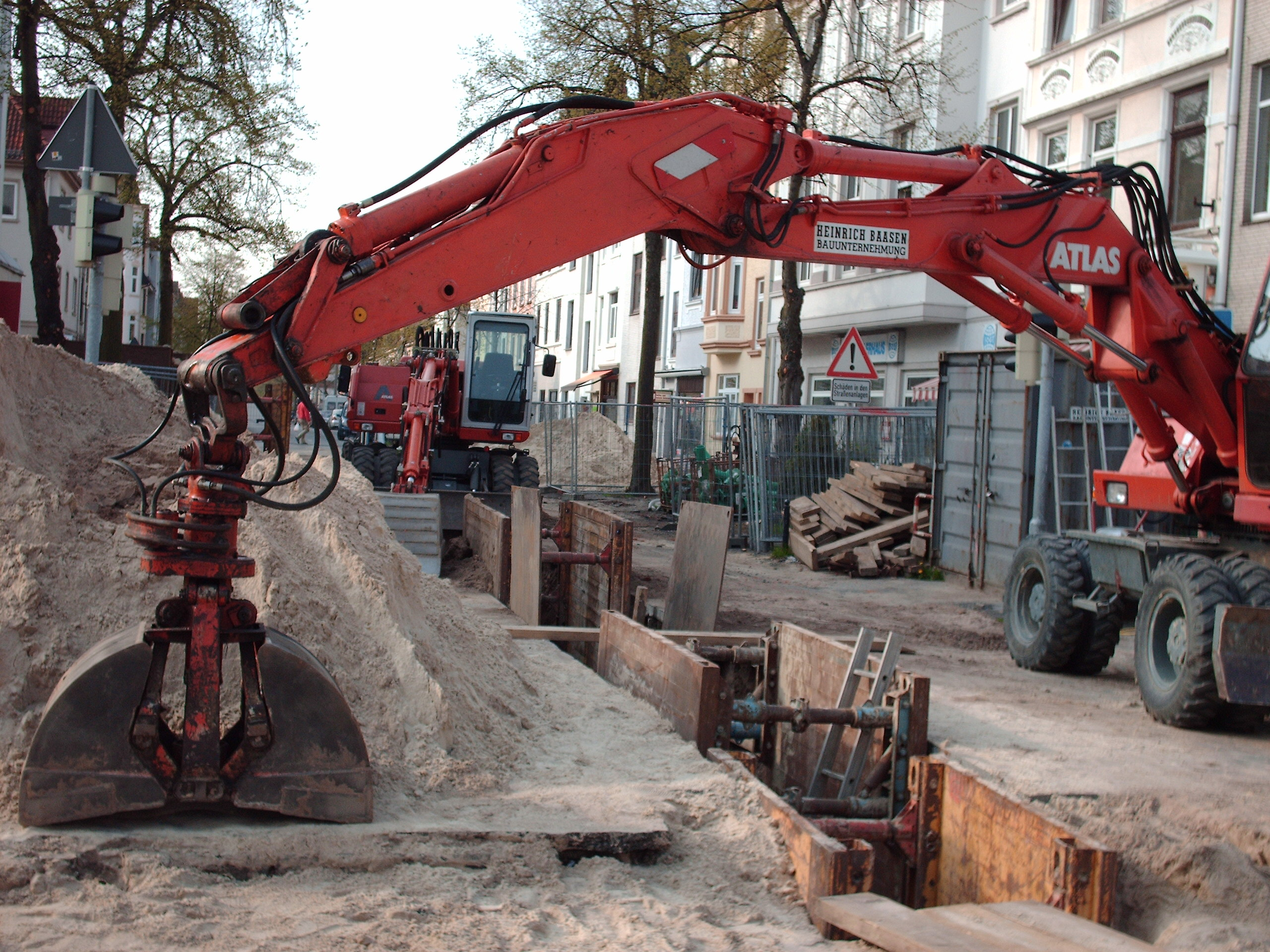 Two ATLAS wheeled hydraulic excavators on a German construction site. A trench is being excavated with protective trench shielding. Left foreground: a clamshell bucket.